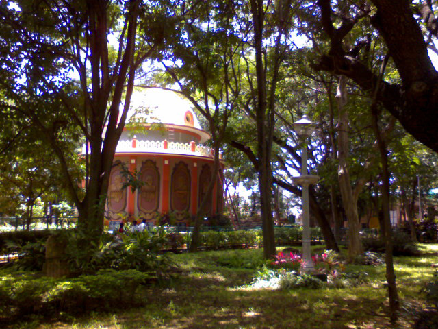 Bugle Rock, Basavanagudi, Karnataka, India. Author: Krishnan